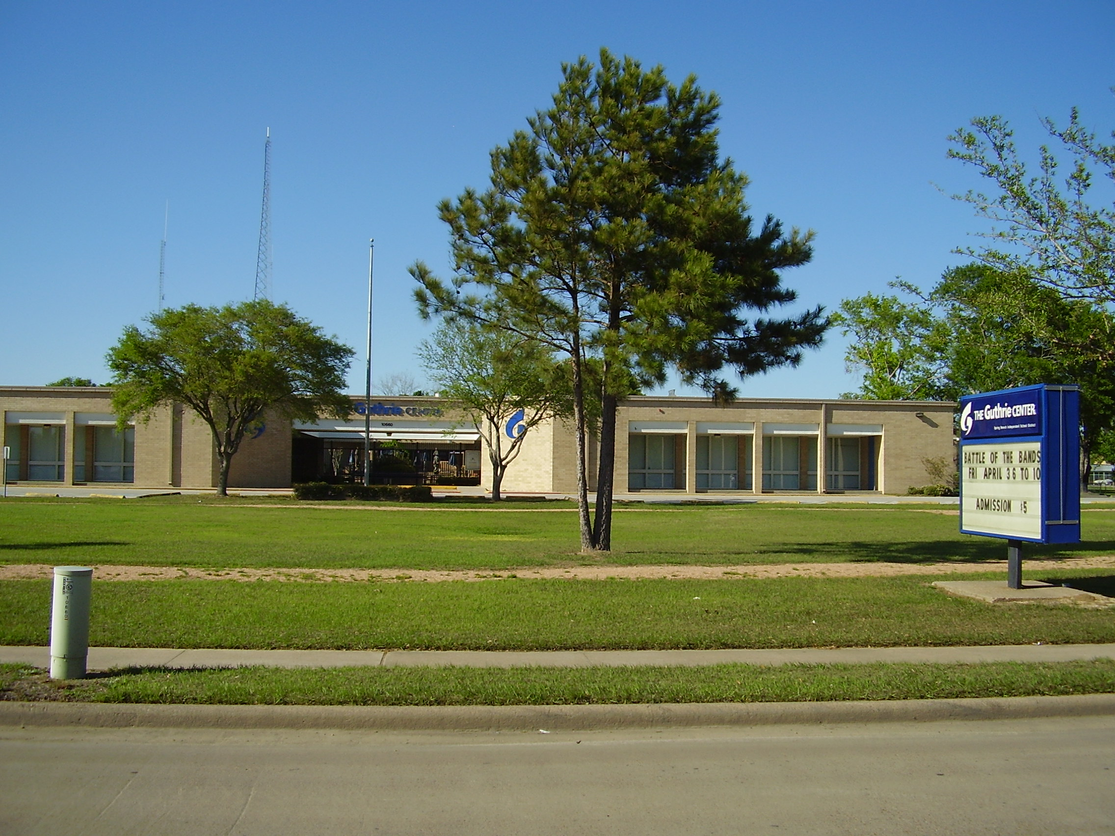 Harold D. Guthrie Center for Excellence